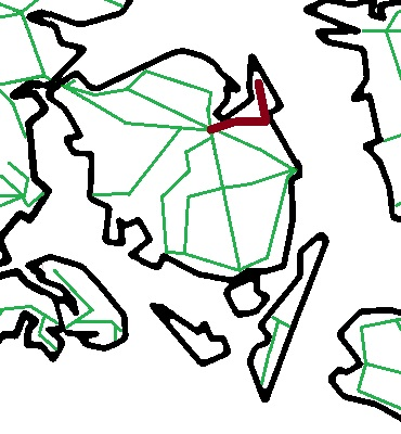 Map of railways on Funen in Denmark with the private railway Odense-Kerteminde-Martofte Jernbane in brown.